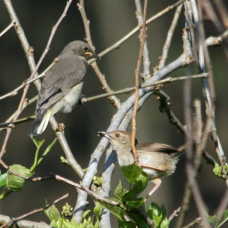 Wahlberg's Honeyguide (Prodotiscus regulus) - Juvenile with host parent Rock-loving Cisticola (Cisticola aberrans) Location: Pietermaritzburg, South Africa